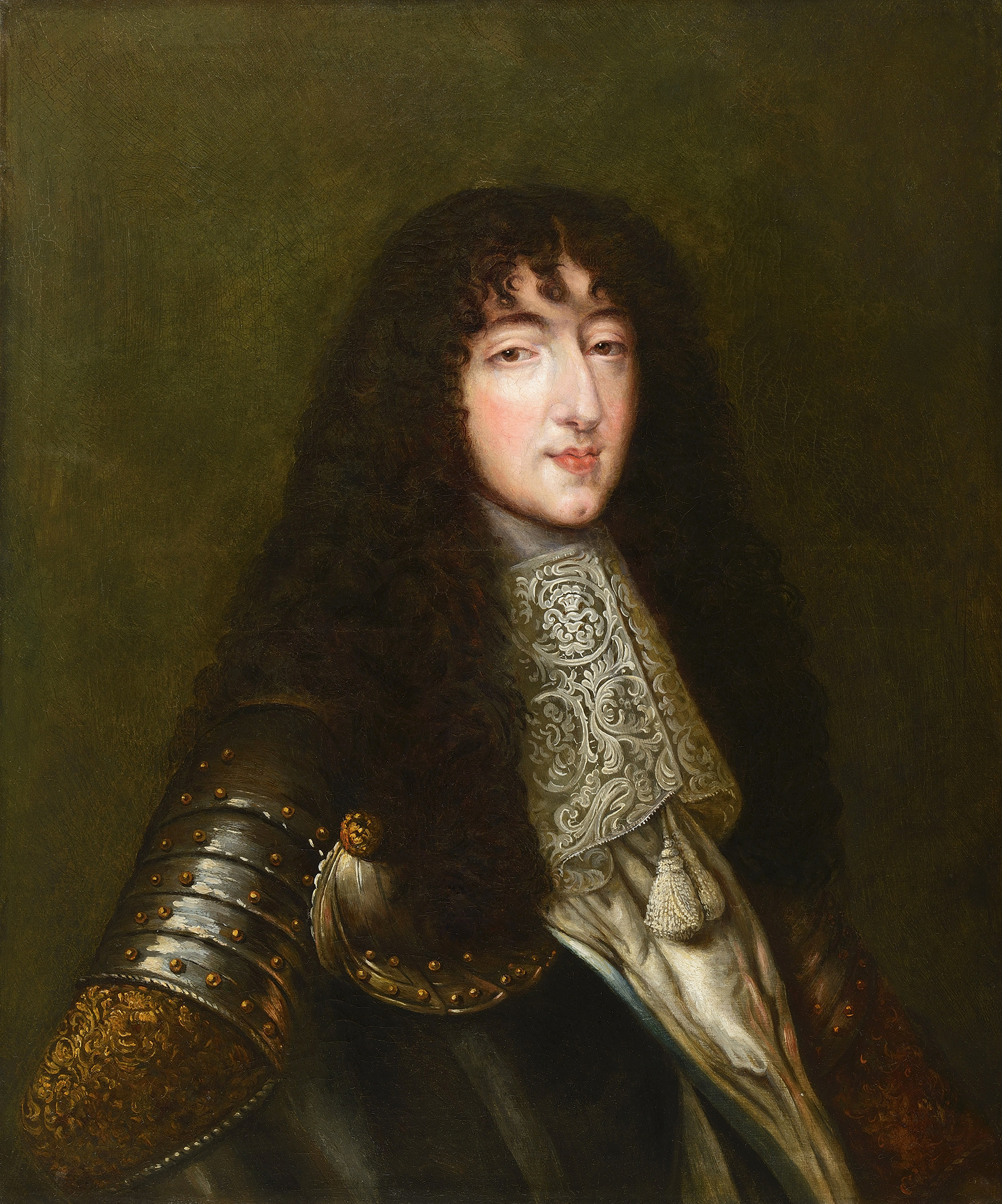 Philippe I (1640-1701), Duke of Orléans (1660-1701), Duke of Anjou (1640-1660)